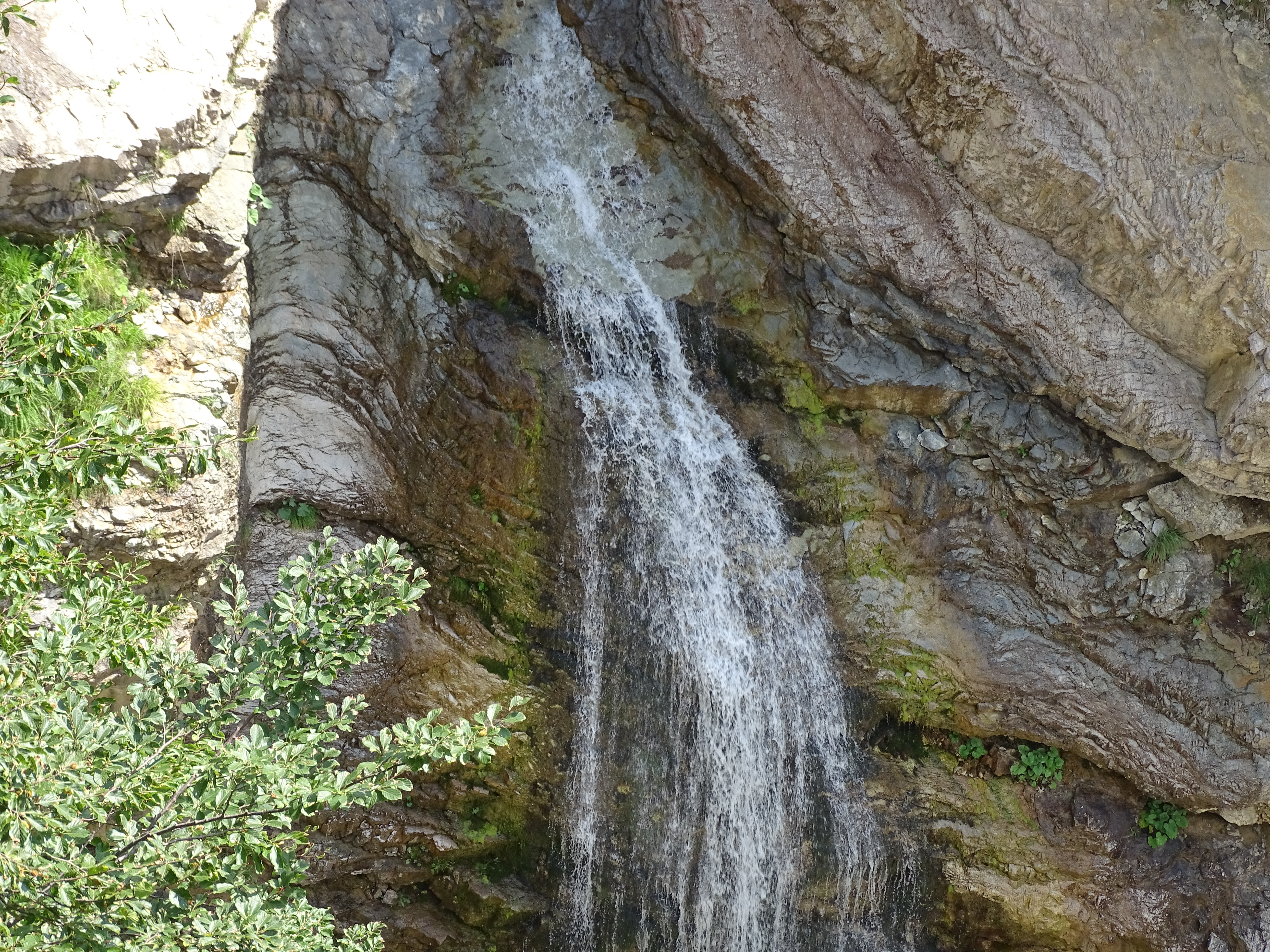 Waterfall on the Mangrt Stream in Mlinč, Slovenia